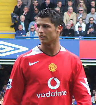 Cristiano Ronaldo; image cropped from Image:Ronaldo - Manchester United vs Chelsea.jpg.